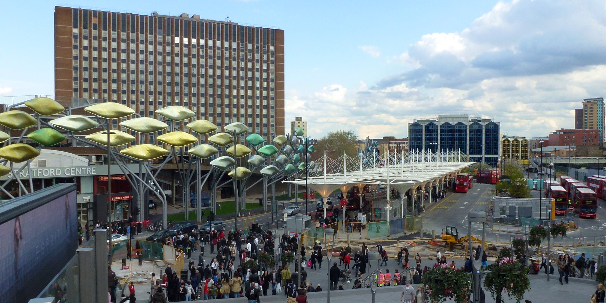 Stratford Centre and Stratford bus station in April 2012.